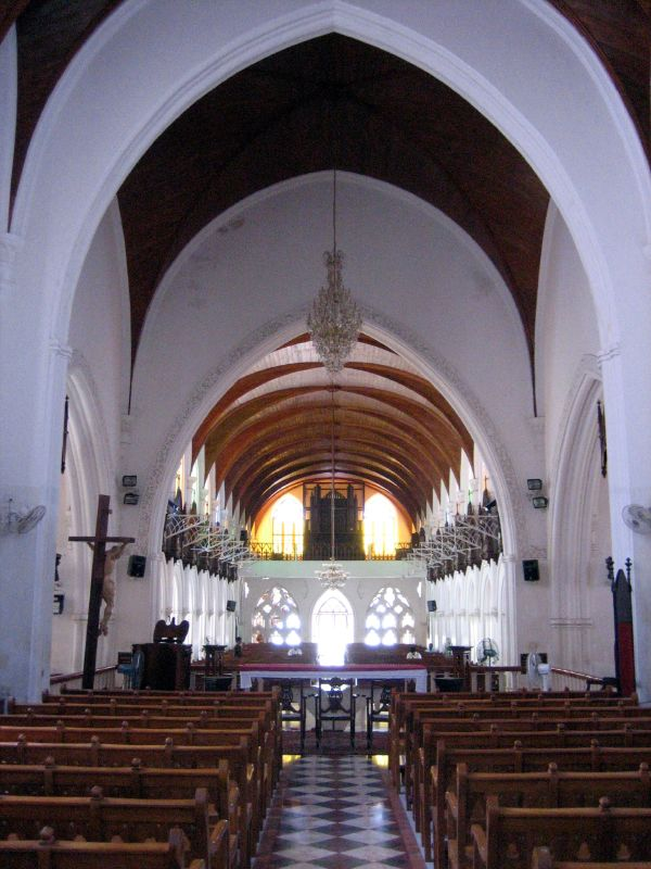 view from the altar in the main chapel of St. Thomas Basilica. This is one of only three churches founded by the Jesuits (disciples of Jesus). You can see the relics of St. Thomas here, and you can also visit the place of his martyrdom, a small cave outside of Chennai.